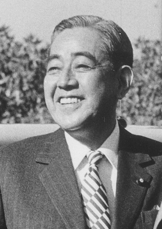 President Nixon and Prime Minister Eisaku Sato of Japan at San Clemente, 01/05/1972